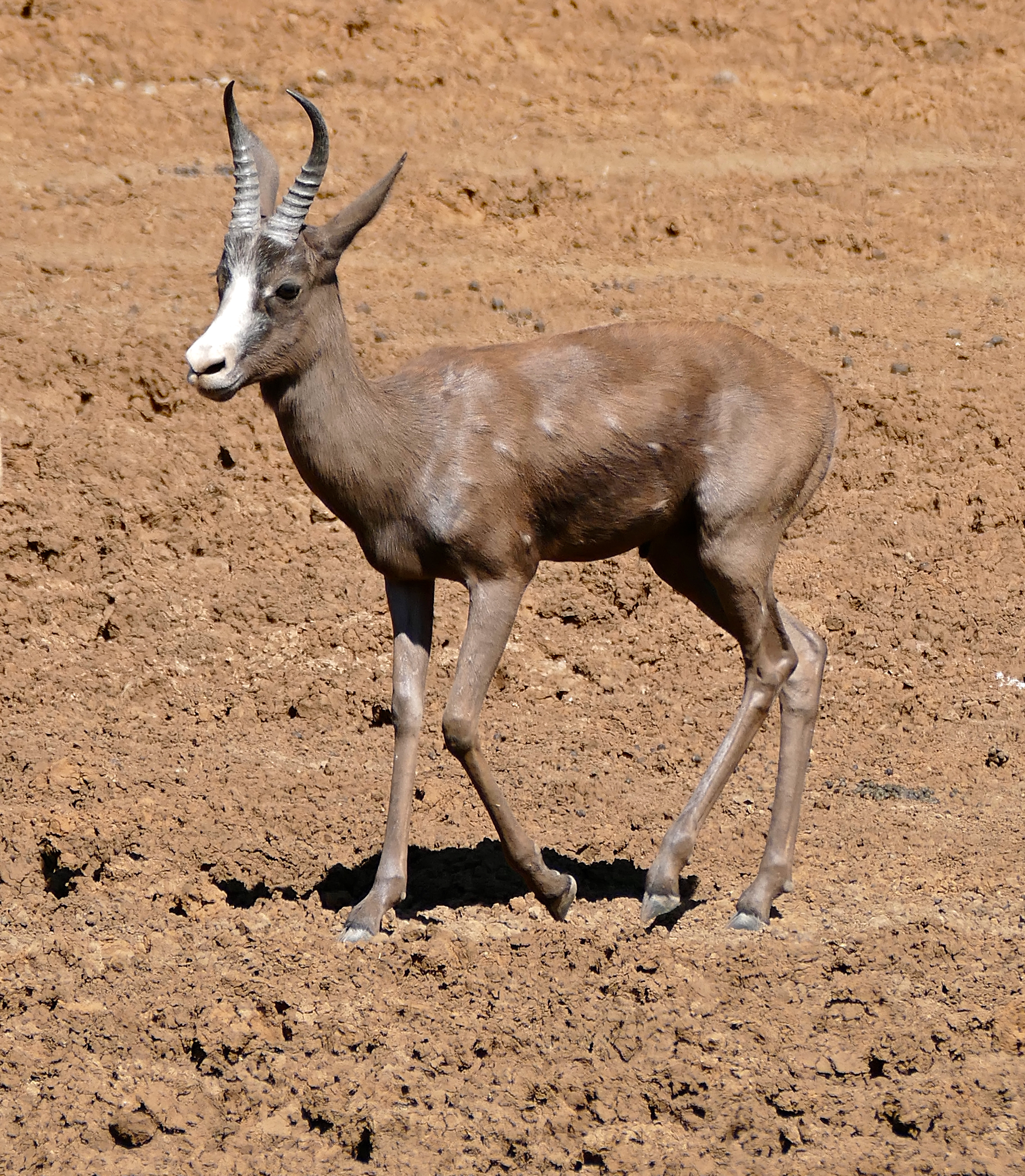 Stofdam Hide, Mokala NP, Northern Cape, SOUTH AFRICA